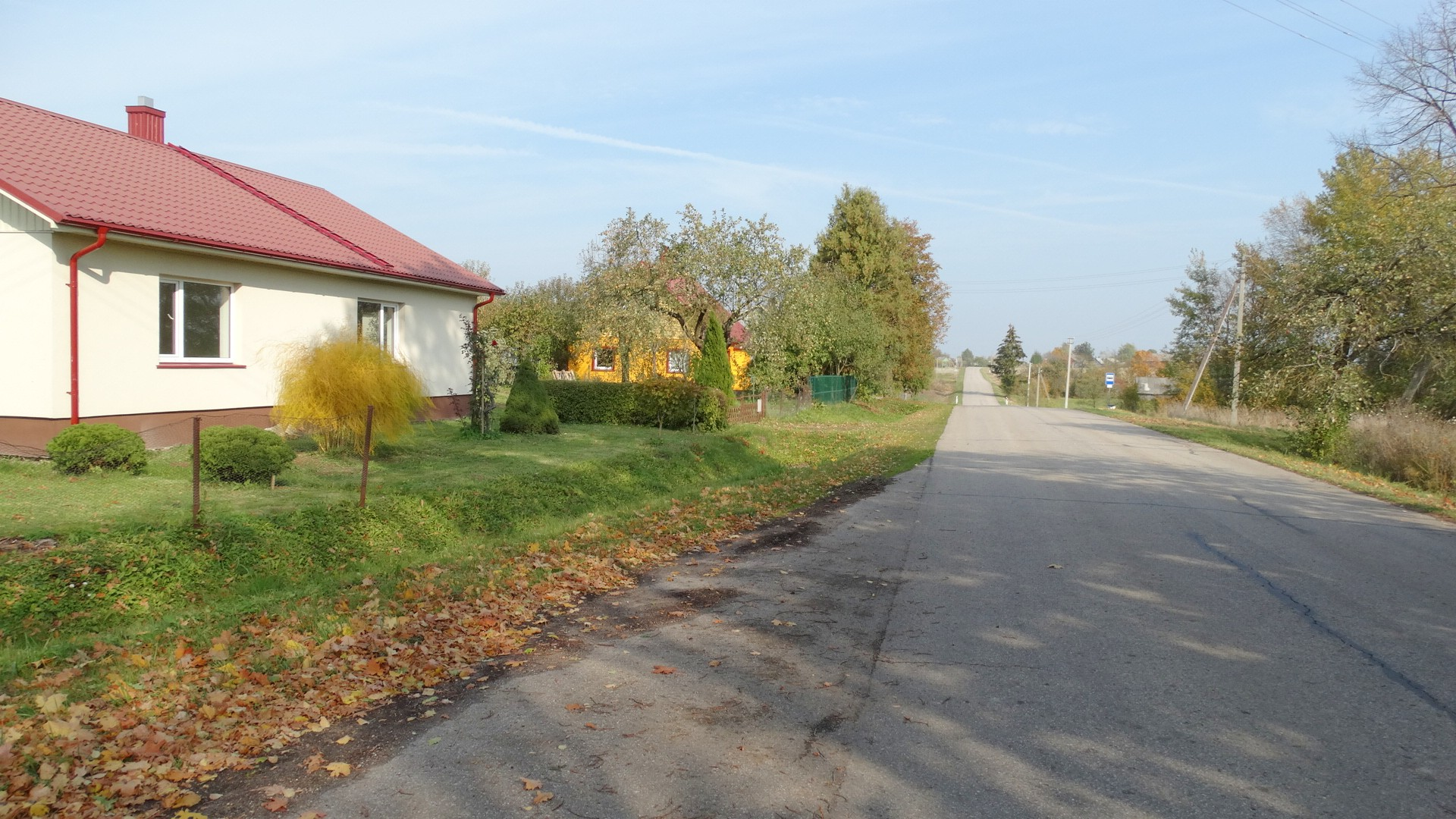 Žiūronys, Prienai district, Lithuania